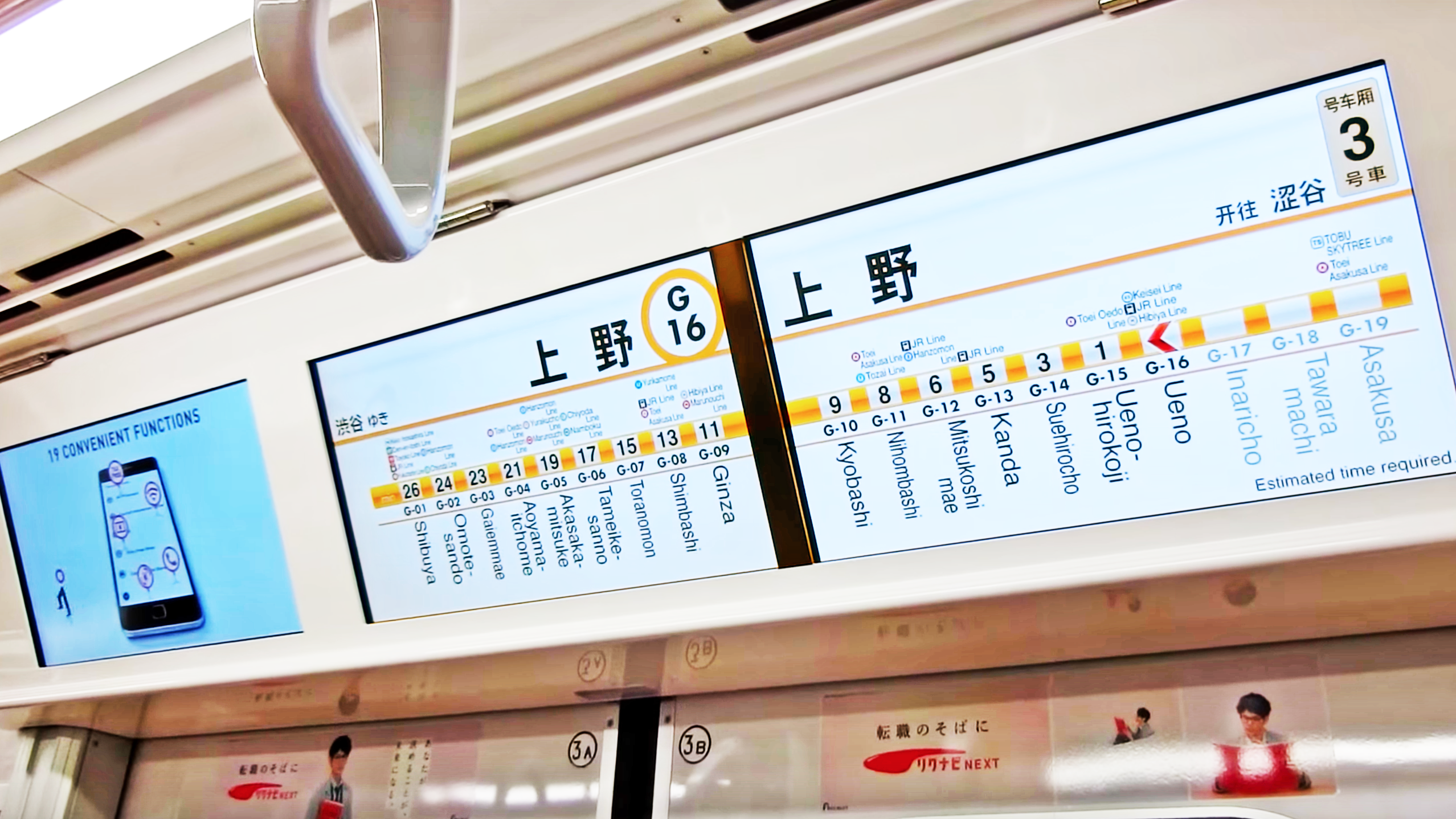 LCD displays on Tokyo Metro 1000 series train.